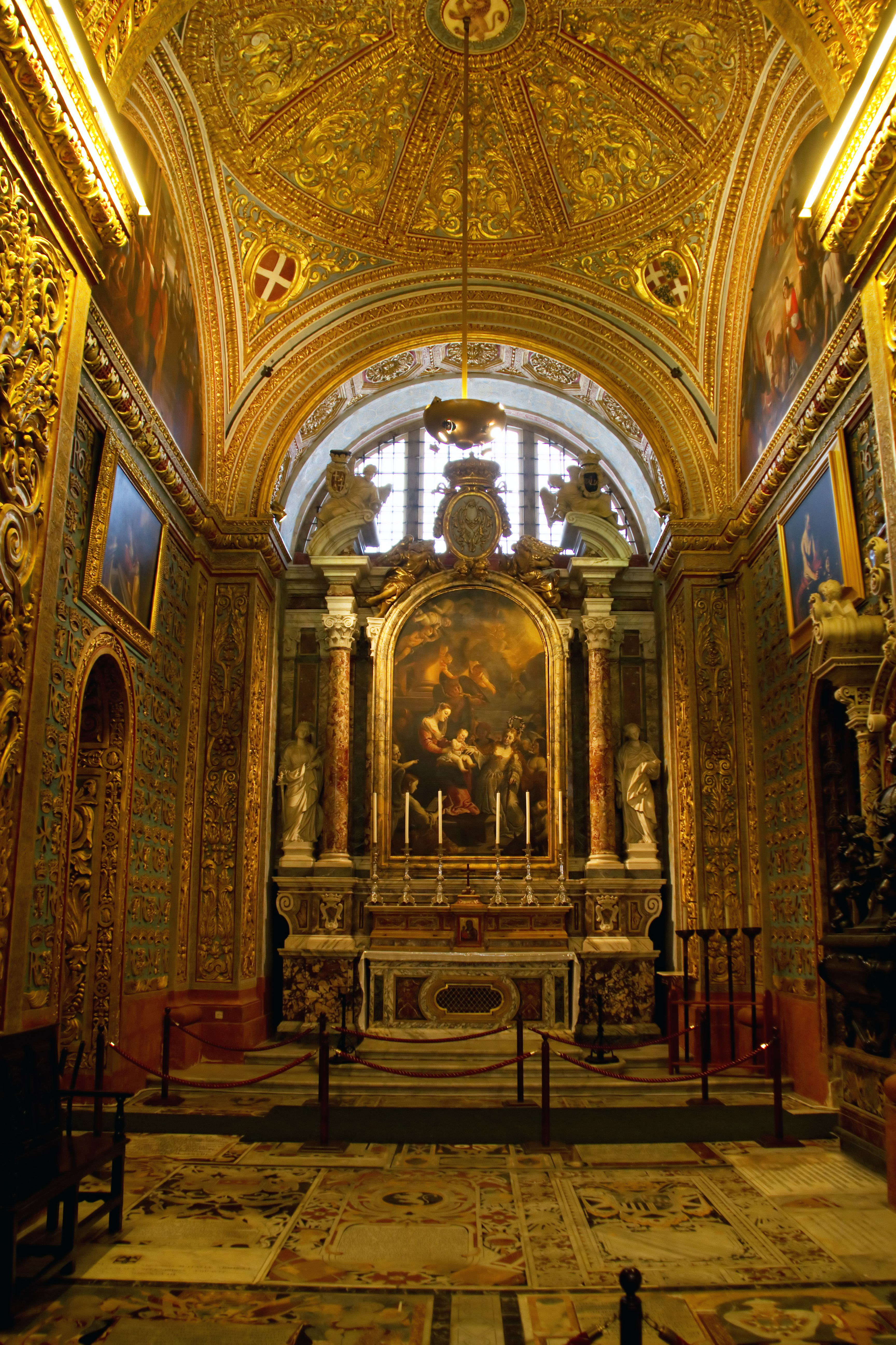 St John's Co-Cathedral Interior 7